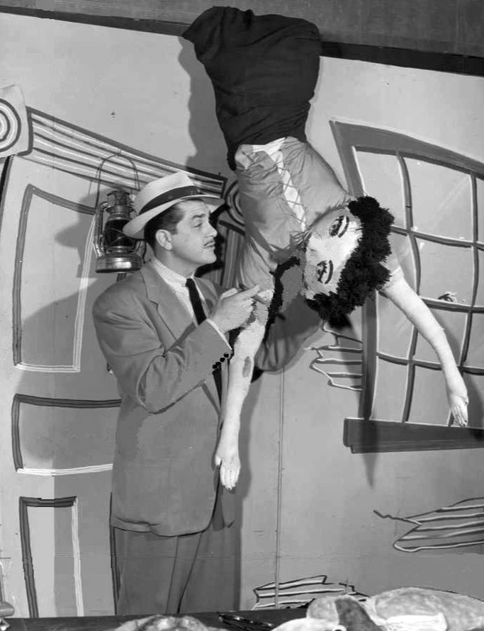 Publicity photo of Ernie Kovacs with "Gertrude" from Three to Get Ready.